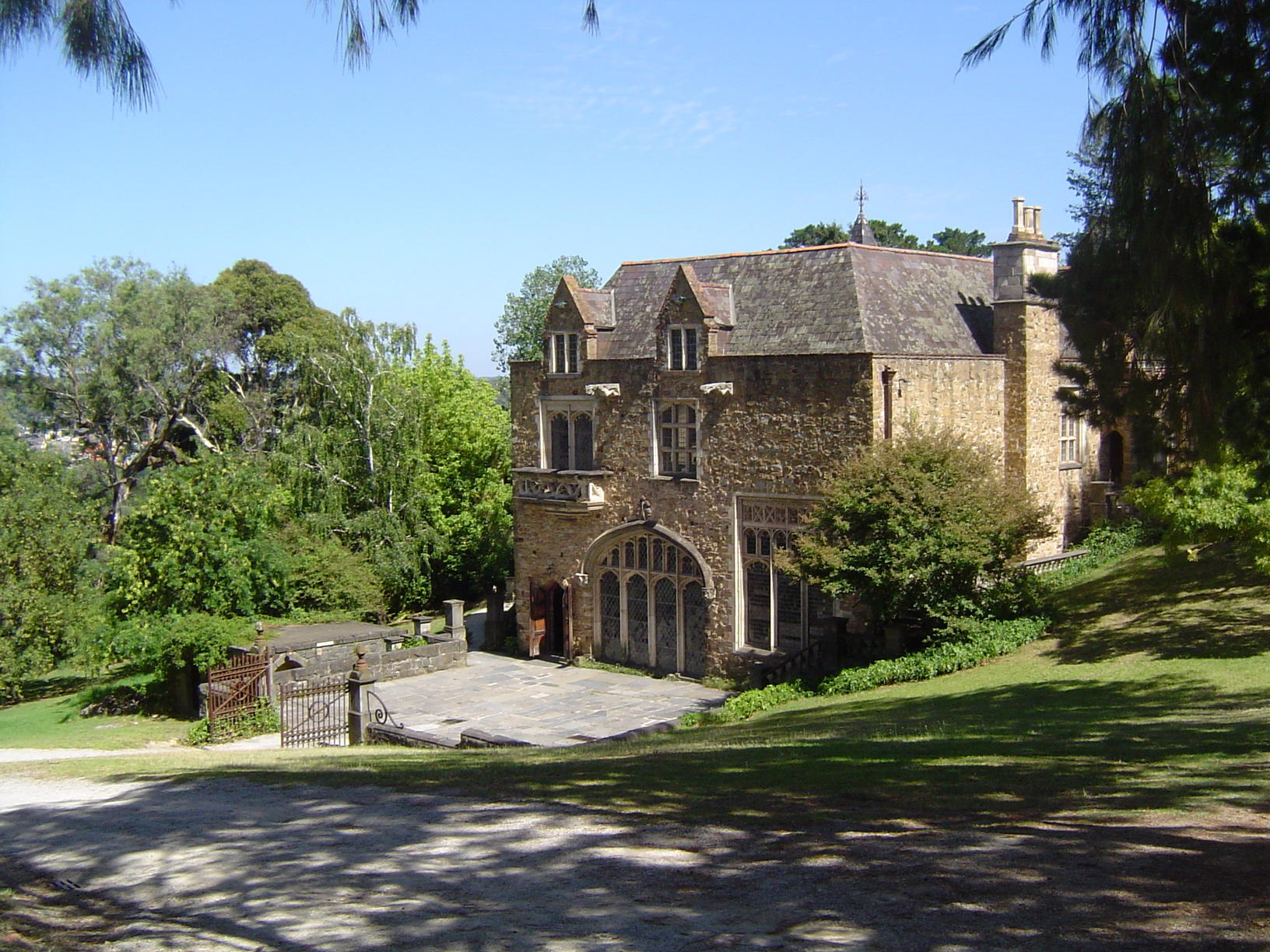 The Great Hall at Montsalvat in 2005.